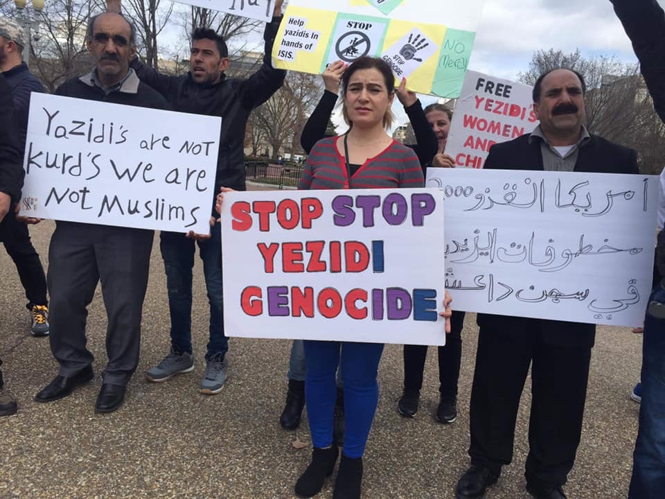 Yazidi demonstration in front of the White House in Washington DC. (March 15, 2019) The poster on the left says "Yazidis are not Kurds. We are not Muslims."